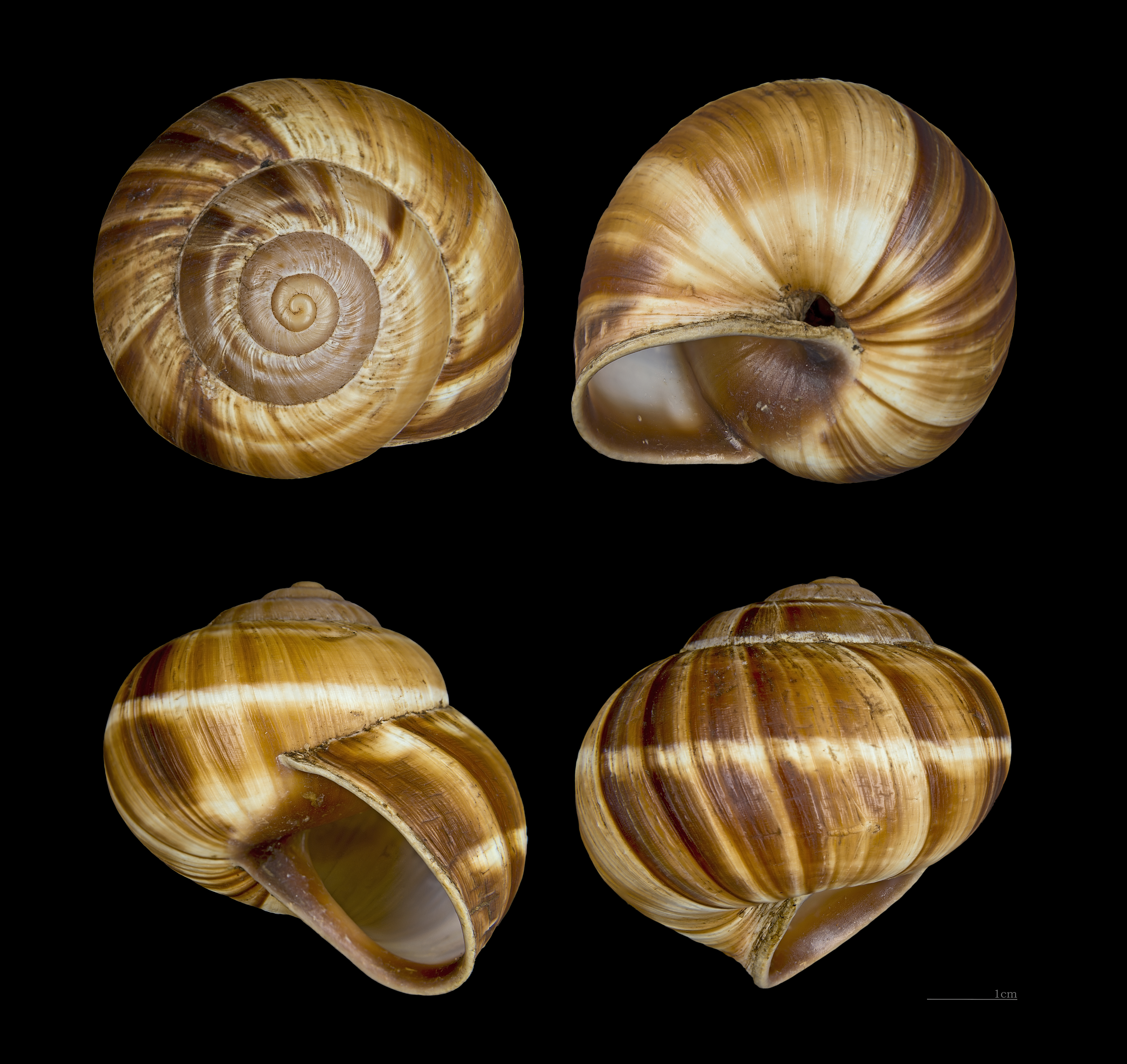 Shells of Helix lucorum